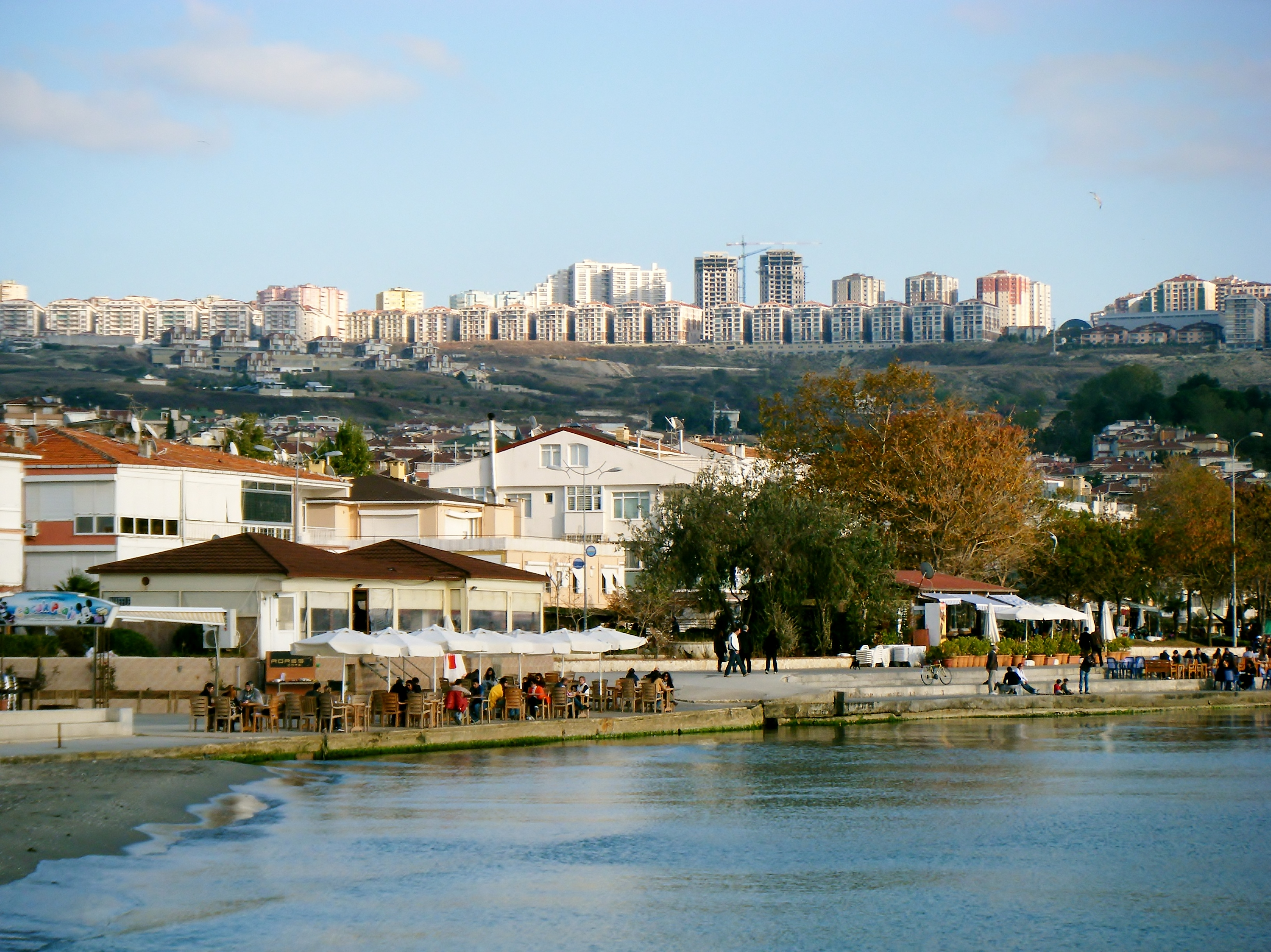 beylikdüzü district of istanbul. beykent beylikdüzü district view from the waterfront seaside.